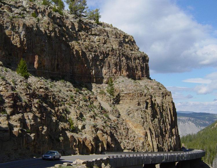 Photo taken by Daniel Mayer and released under terms of the GNU FDL.